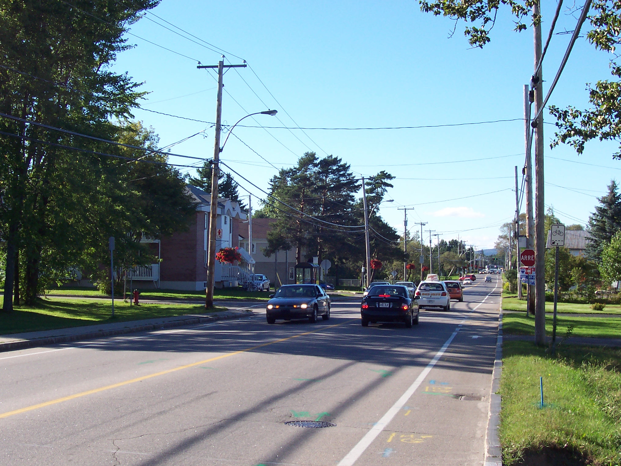 Pie-XI Boulevard, Val-Bélair, Laurentien borough, Quebec City (Quebec, Canada), september 8th, 2007.